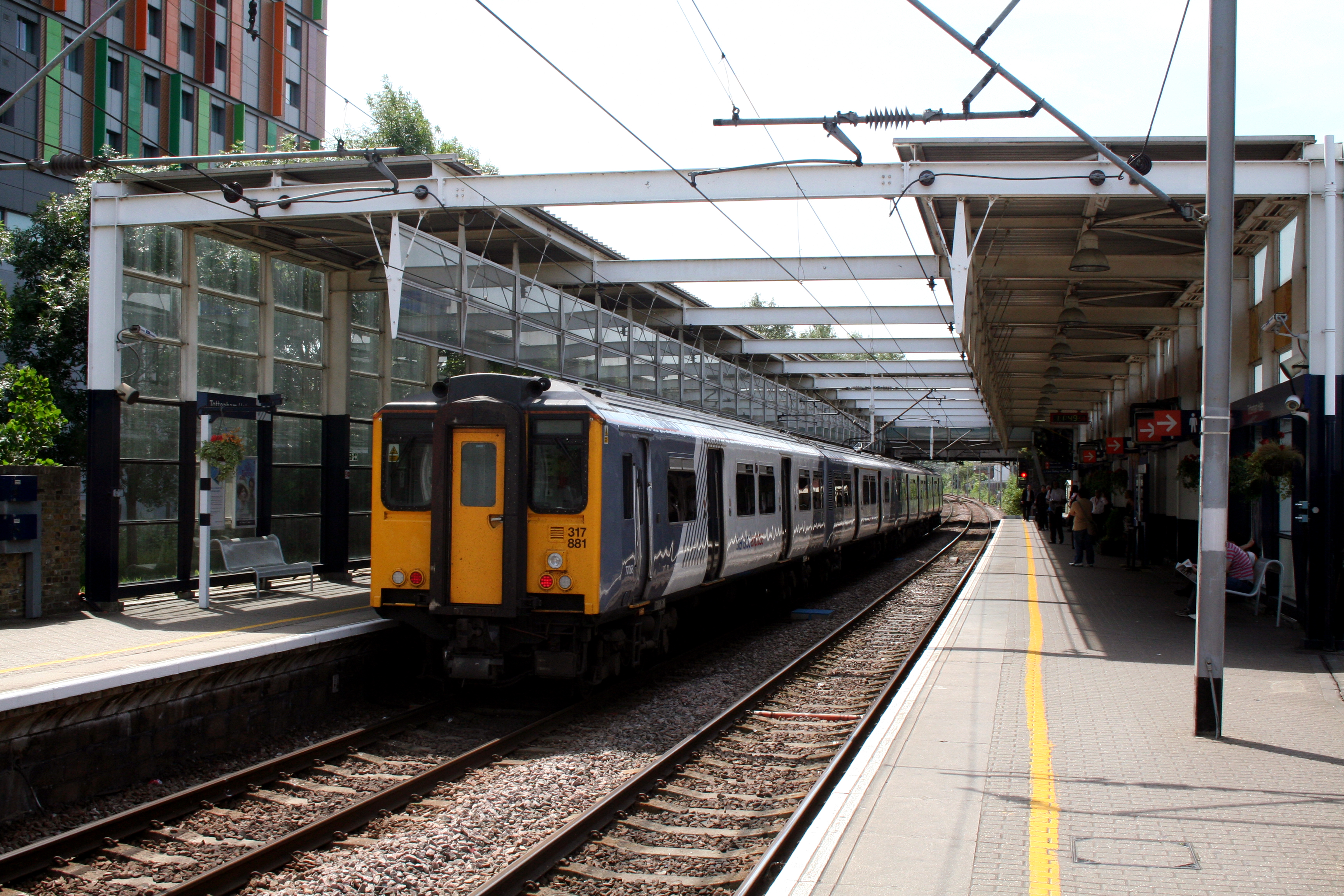 Tottenham Hale Station, near to Tottenham, Haringey, Great Britain. Looking south we observe unit No 317 881, in the revised Stansted Express livery, on an Up working to Liverpool Street